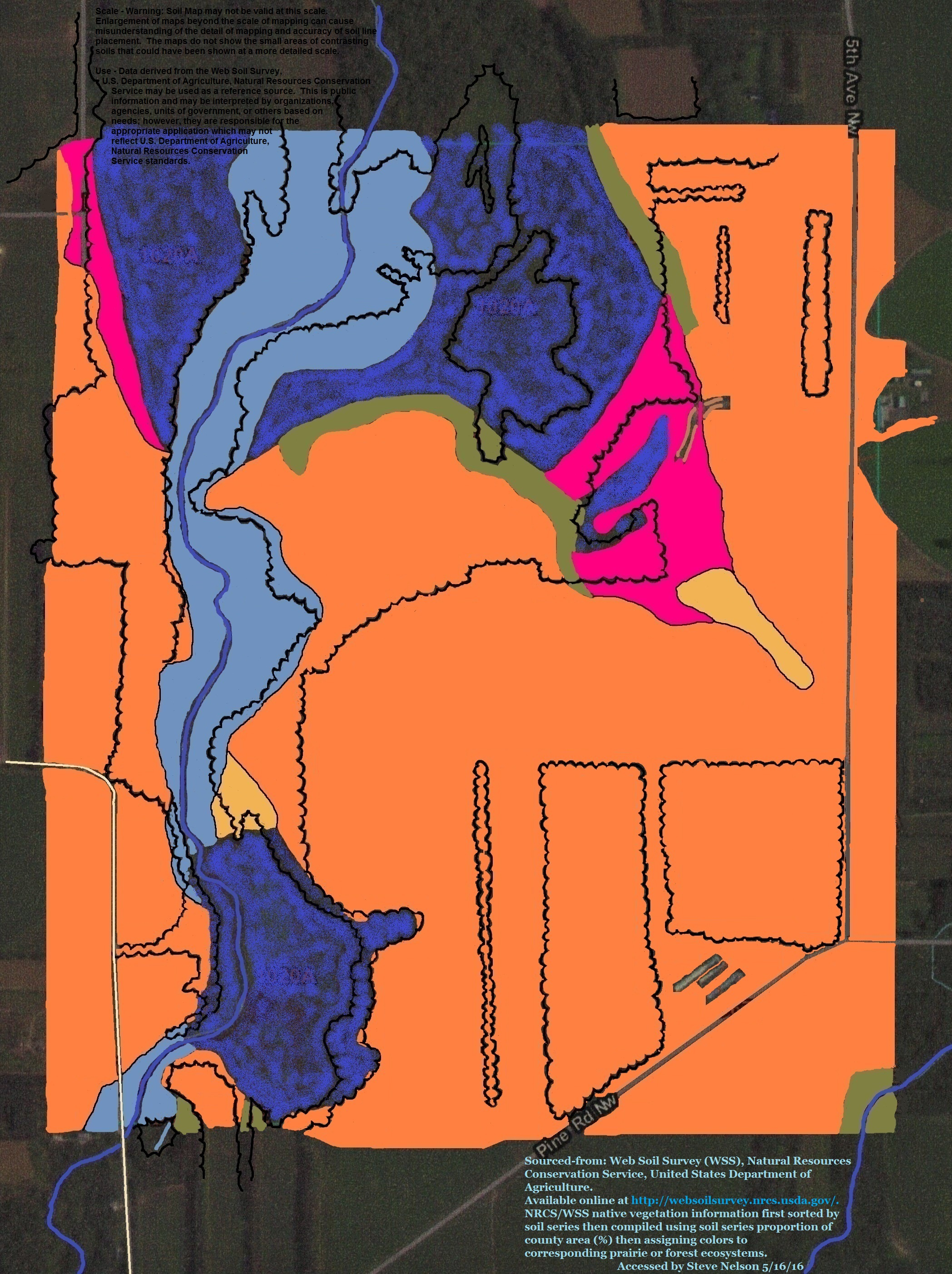 Colored map shows native vegetation of area in and around the State of Minnesota DNR Sartell Wildlife Management Area. Wildlife Management Area is 368 acres on left / west side and top middle of map.